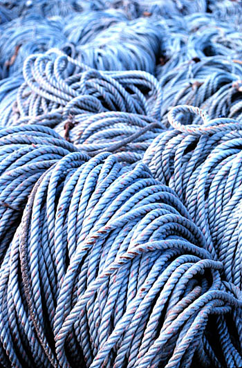 Coils of rope. Image ID: fish1091, Fisheries Collection Location: Washington State Photographer: William B. Folsom, NMFS [1]